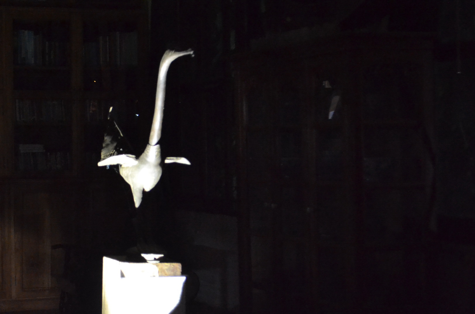 Wat Kungtapao Local Museum. at Wat Khung Taphao, Ban Khung Taphao, Khung Taphao subdistrict, Mueang Uttaradit, Uttaradit Province, Thailand.) on December 2, 2012.